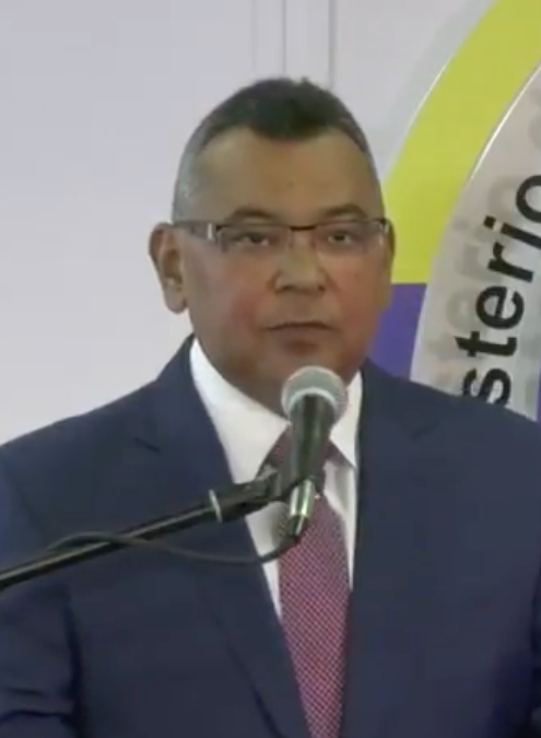 Nestor Reverol in 2018